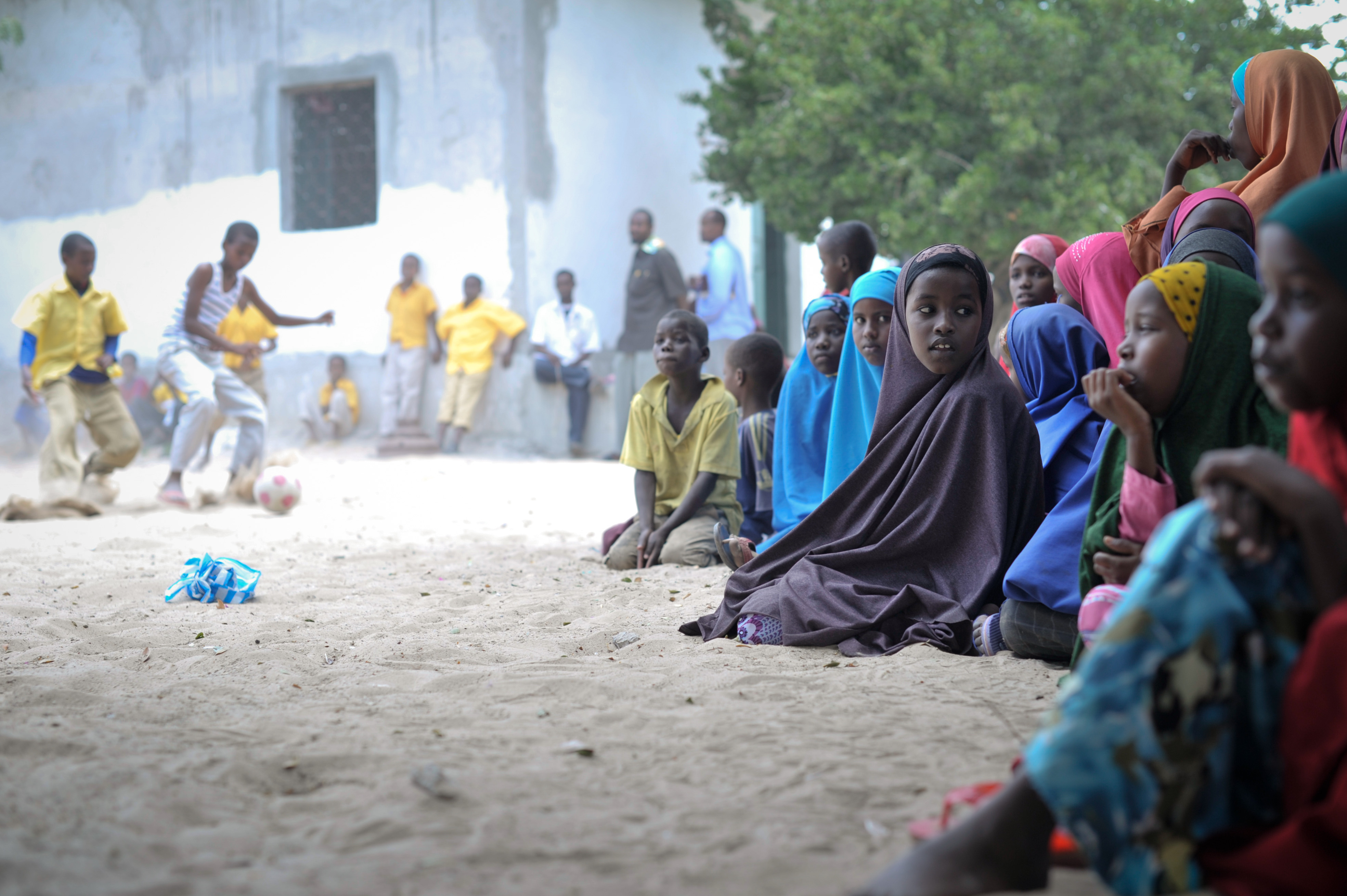 Young girls watch a football game being played outside of their school during breaktime at a center run by Dr. Hawa in the Afgoye corridor, Somalia, on September 25. Dr. Hawa, an internationally recognized humanitarian, established the Hawa Abdi Center in 1983, and has catered for tens of thousands over the years displaced by civil war in Somalia. The center now contains an IDP camp, a school, and a hospital. AU UN IST PHOTO / Tobin Jones